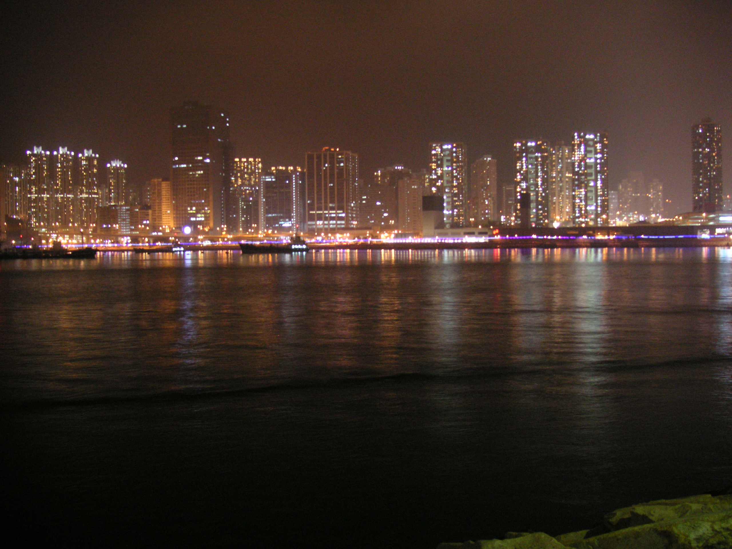 The night scene of Tsuen Wan across Rambler Channel View from Tsing Yi Island in Hong Kong Photograph by User:HenryLi